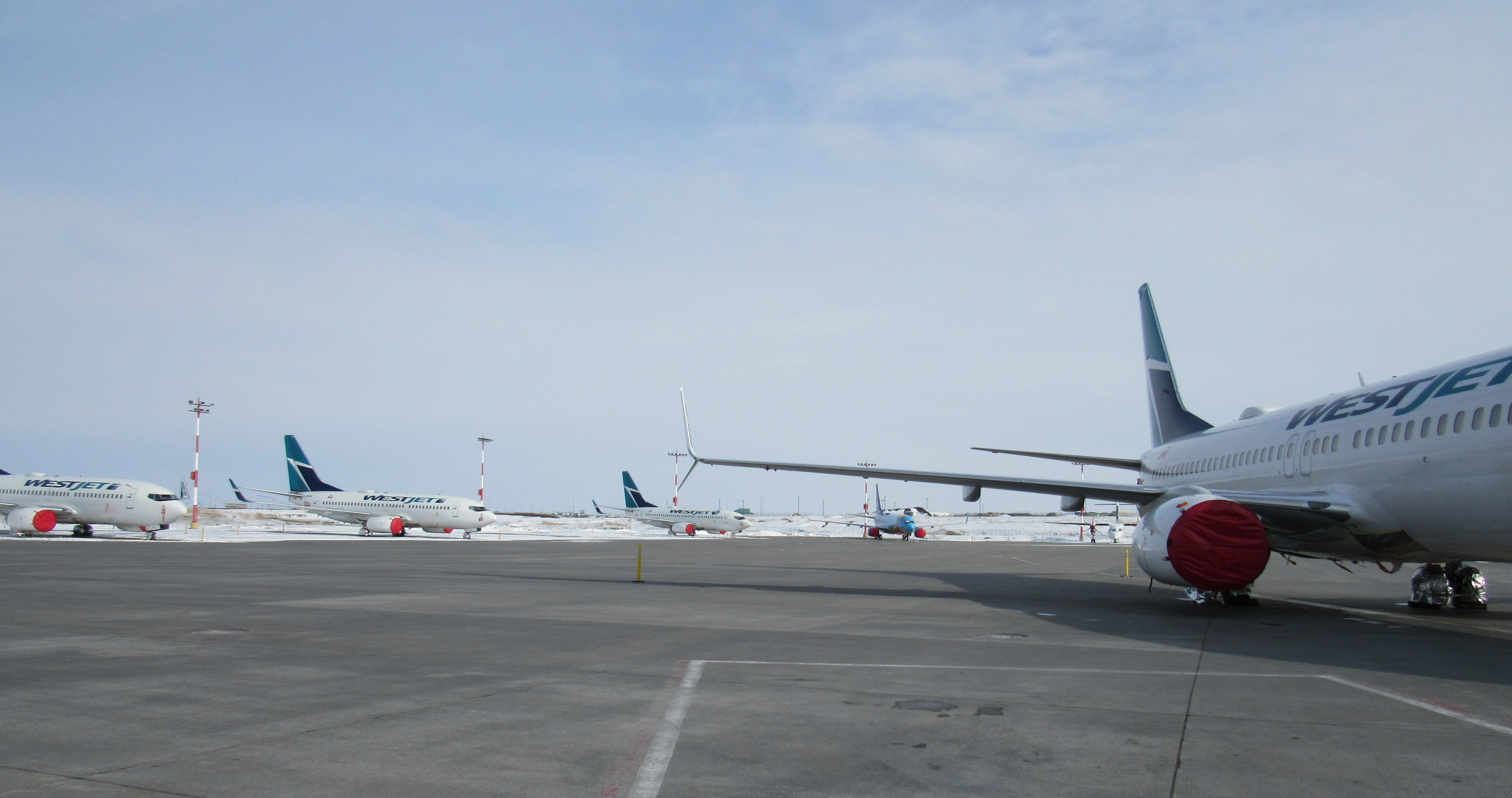 Westjet planes grounding at Yeg airport because of COVID-19 impact